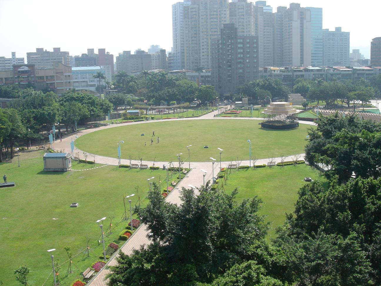 Overlooking the Rai-Ai Park in Yonghe City,Taiwan.